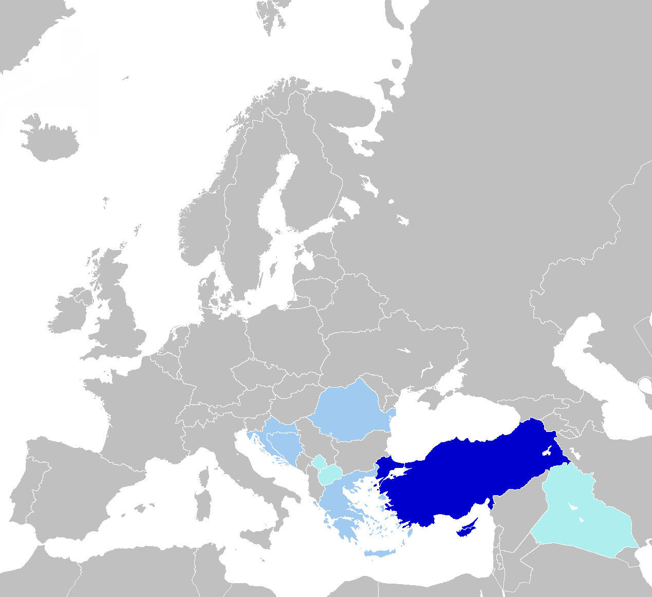 Status of Turkish Language. Official language in Turkey, Republic of Cyprus and Turkish Republic of Northern Cyprus. Recognised minority language in Bosnia and Herzegovina, Romania and Greece. Countries where it is recognized as a minority language and co-official in at least one municipality in Macedonia, Republic of Kosovo and Iraq.